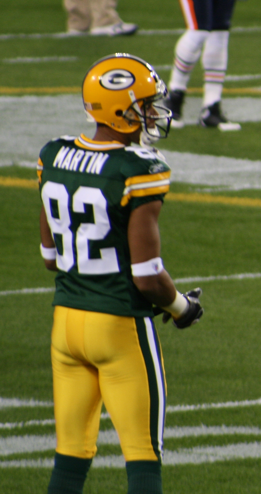 Ruvell Martin warming up before a game.